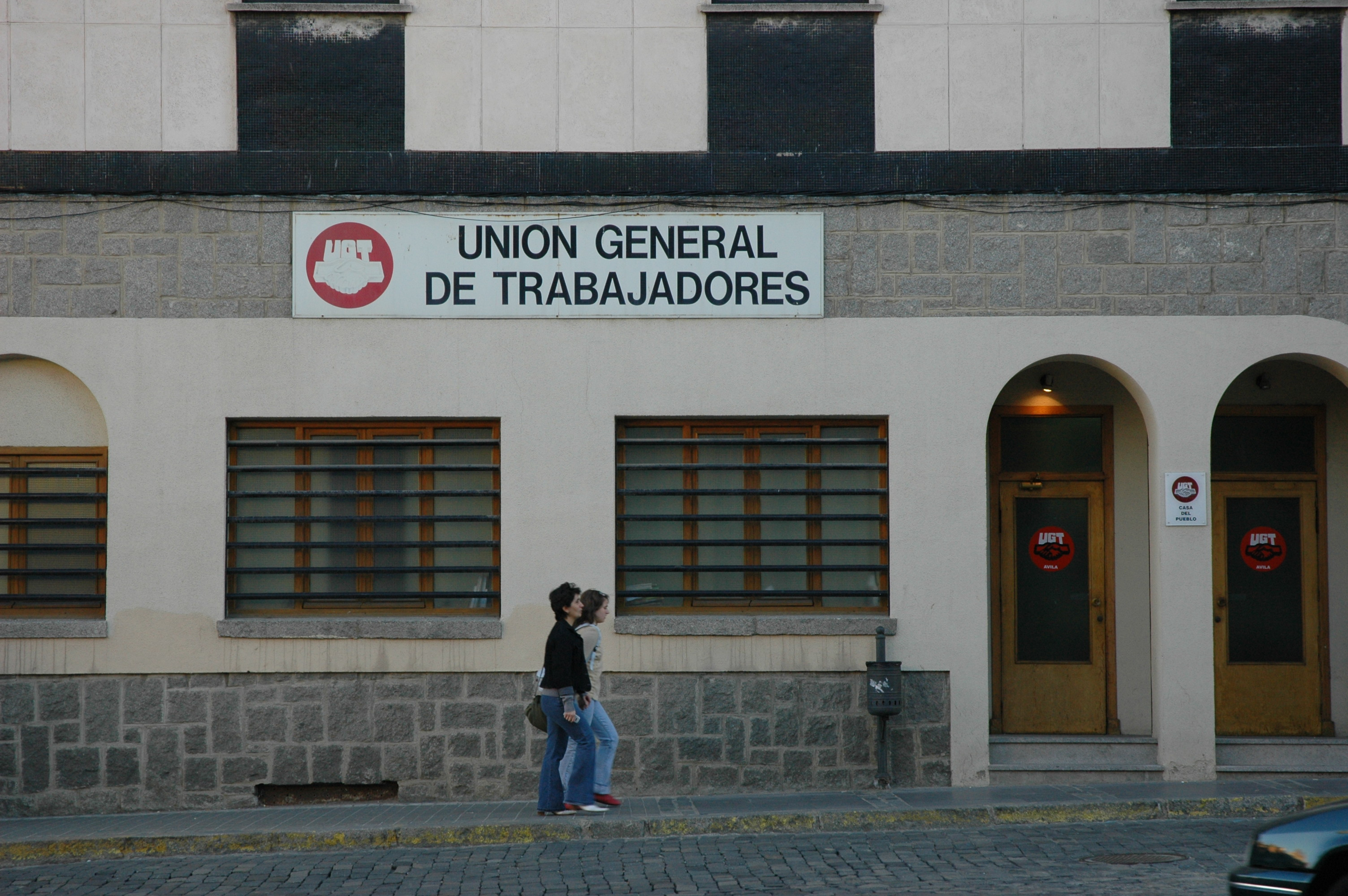 UGT office, region Ávila, Spain